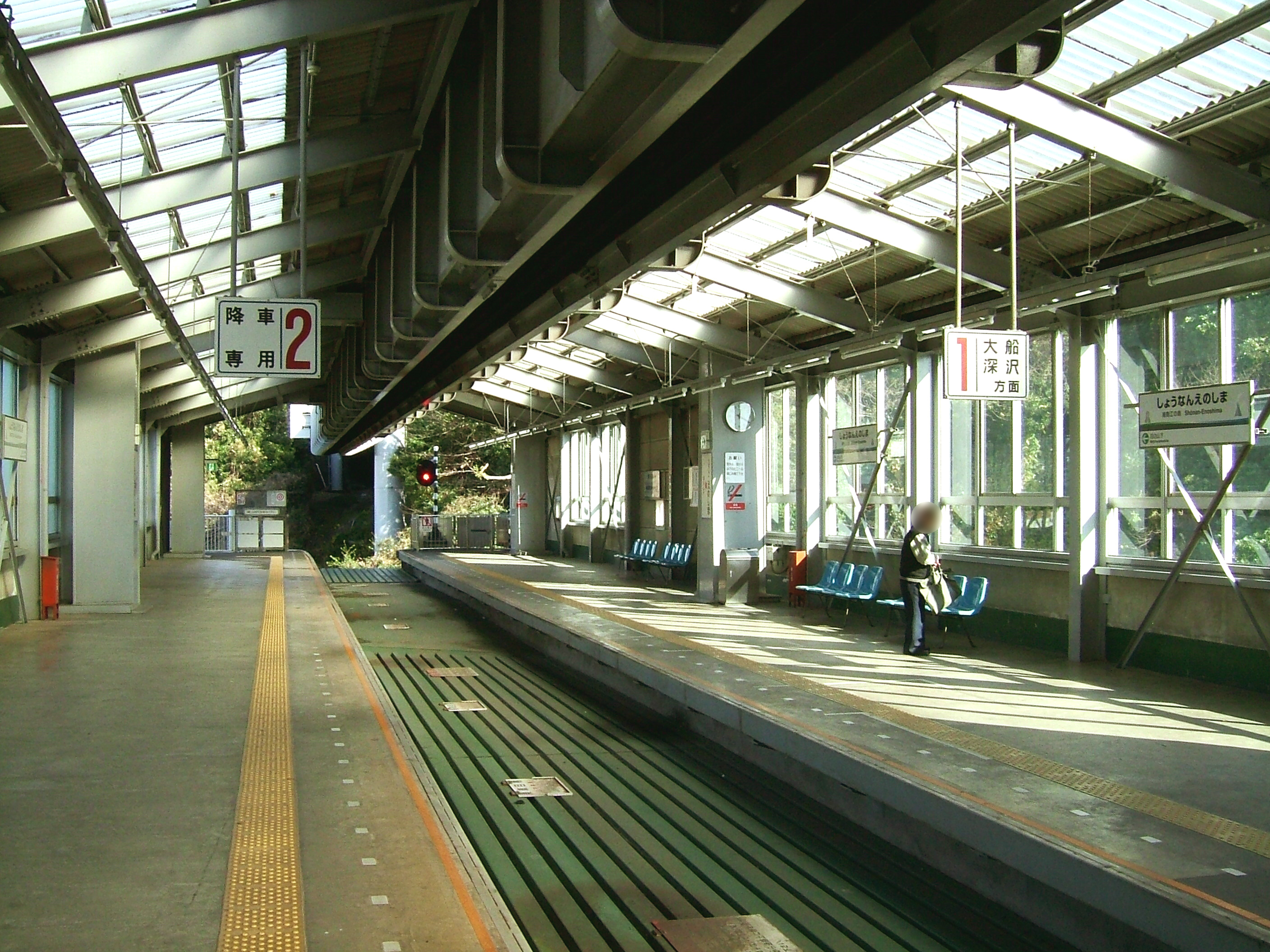 The platform at Shōnan-Enoshima Station on the Shōnan Monorail Line in Fujisawa city, Kanagawa prefecture, Japan